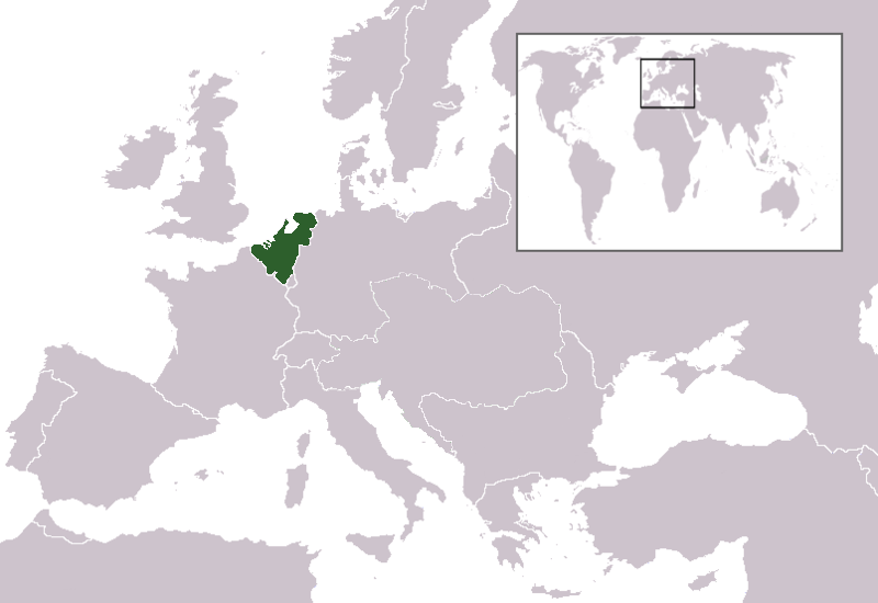 Map of the United Kingdom of the Netherlands, between 1815 and 1839. Created by User:Rysz from Image:Austrian_empire.png